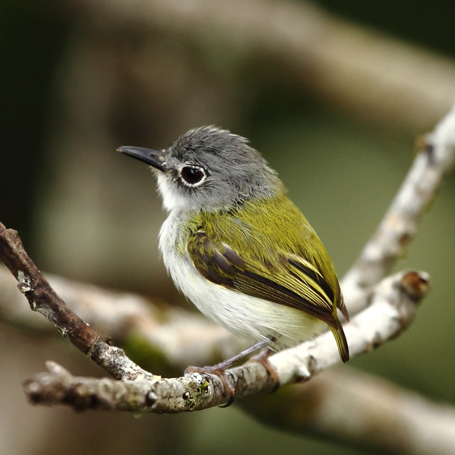 Short -tailed pigmy tyrant at Manaus - Amazonas - Brazil